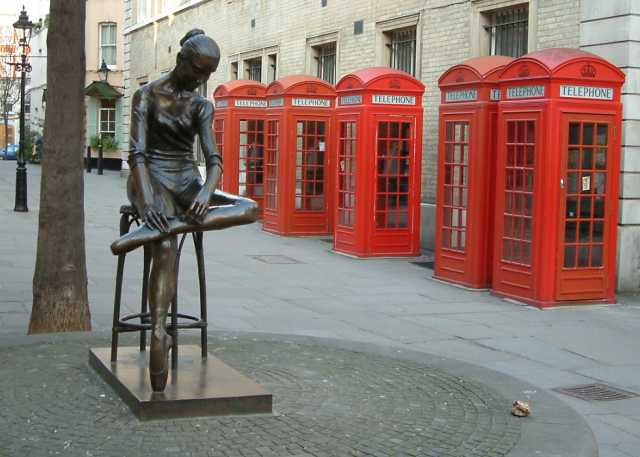 K2 telephone kiosks behind Young Dancer – Broad Court, London WC2, England – 240404 Category:Images of London